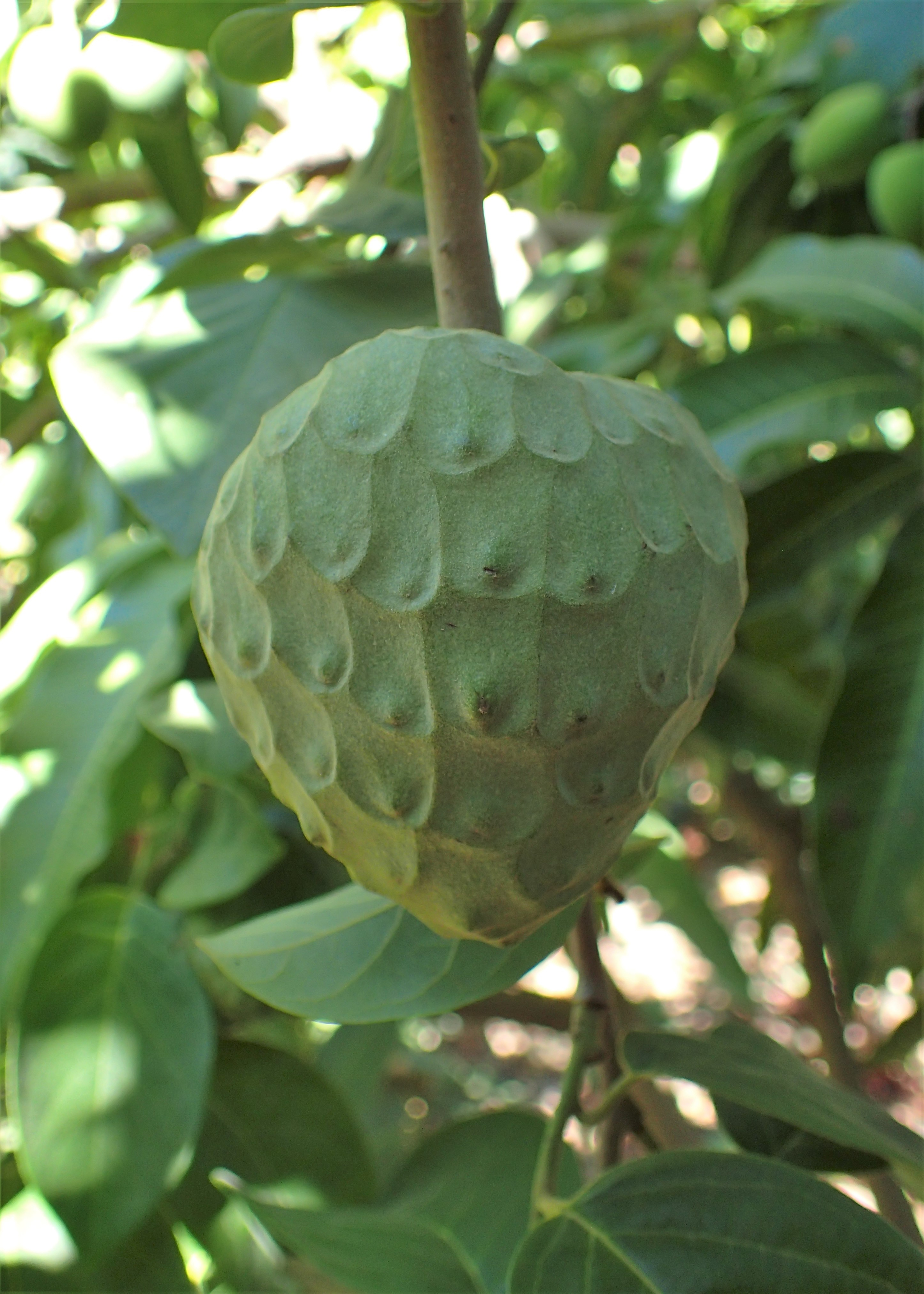 Annona cherimola in Botanical Park of Crete